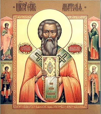 Anatolios of Constantinople